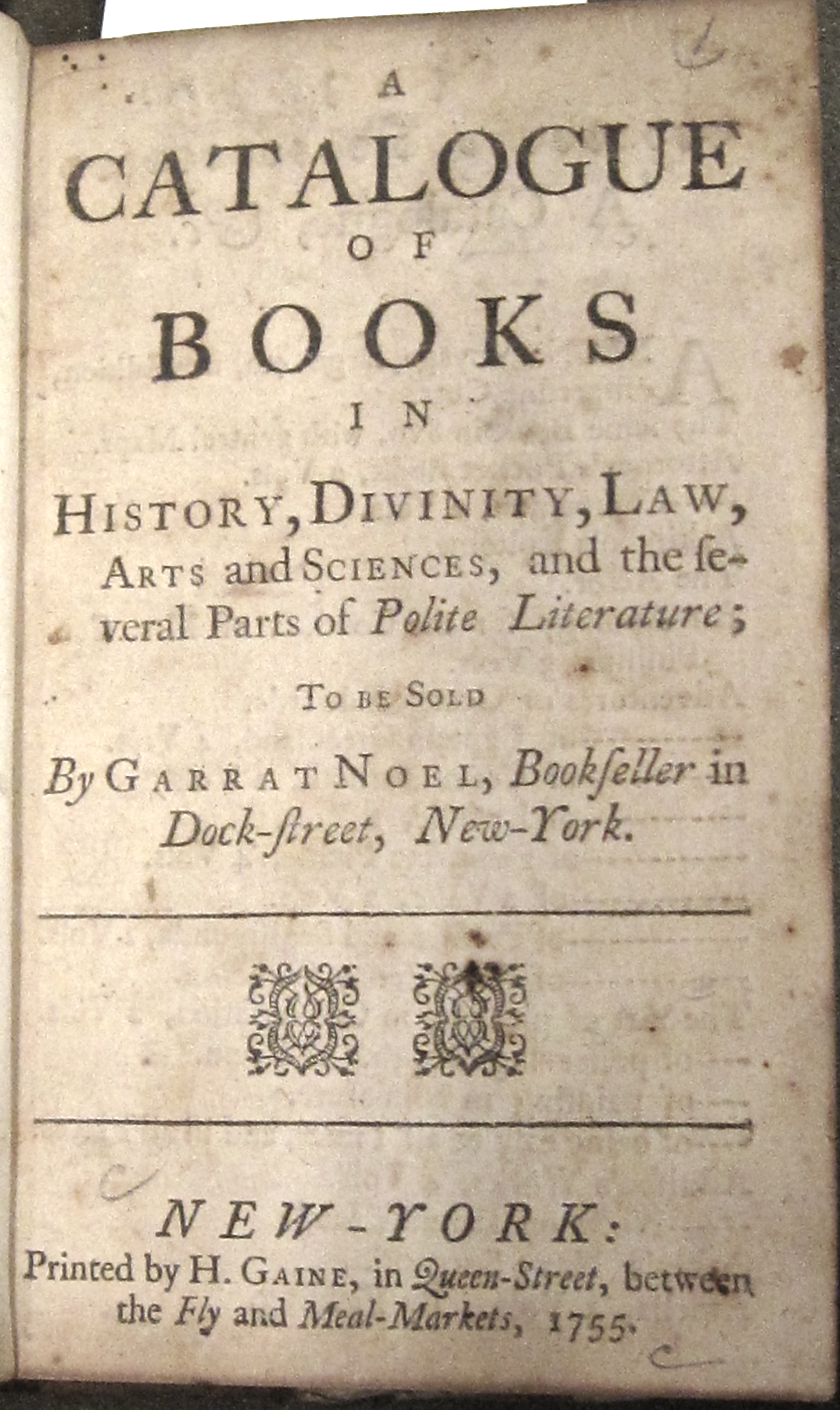 From: A catalogue of books in history, divinity, law, arts and sciences, and the several parts of polite literature : to be sold by Garrat Noel, bookseller in Dock-Street, New York. New-York : Printed by H. Gaine, in Queen-Street, between the Fly and Meal-Markets, 1755. (24 p. ; 16 cm.)